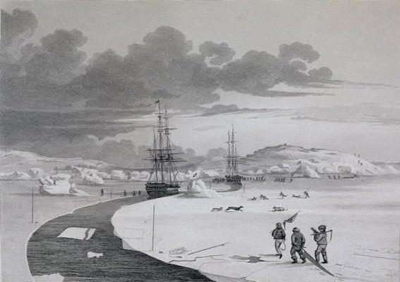 "Cutting into Winter Island" by Lyon